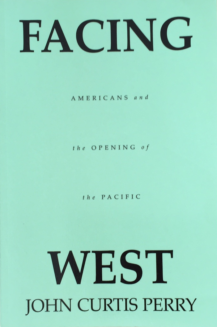 Book cover of Facing West: Americans and the Opening of the Pacific (1995) authored by John Curtis Perry.